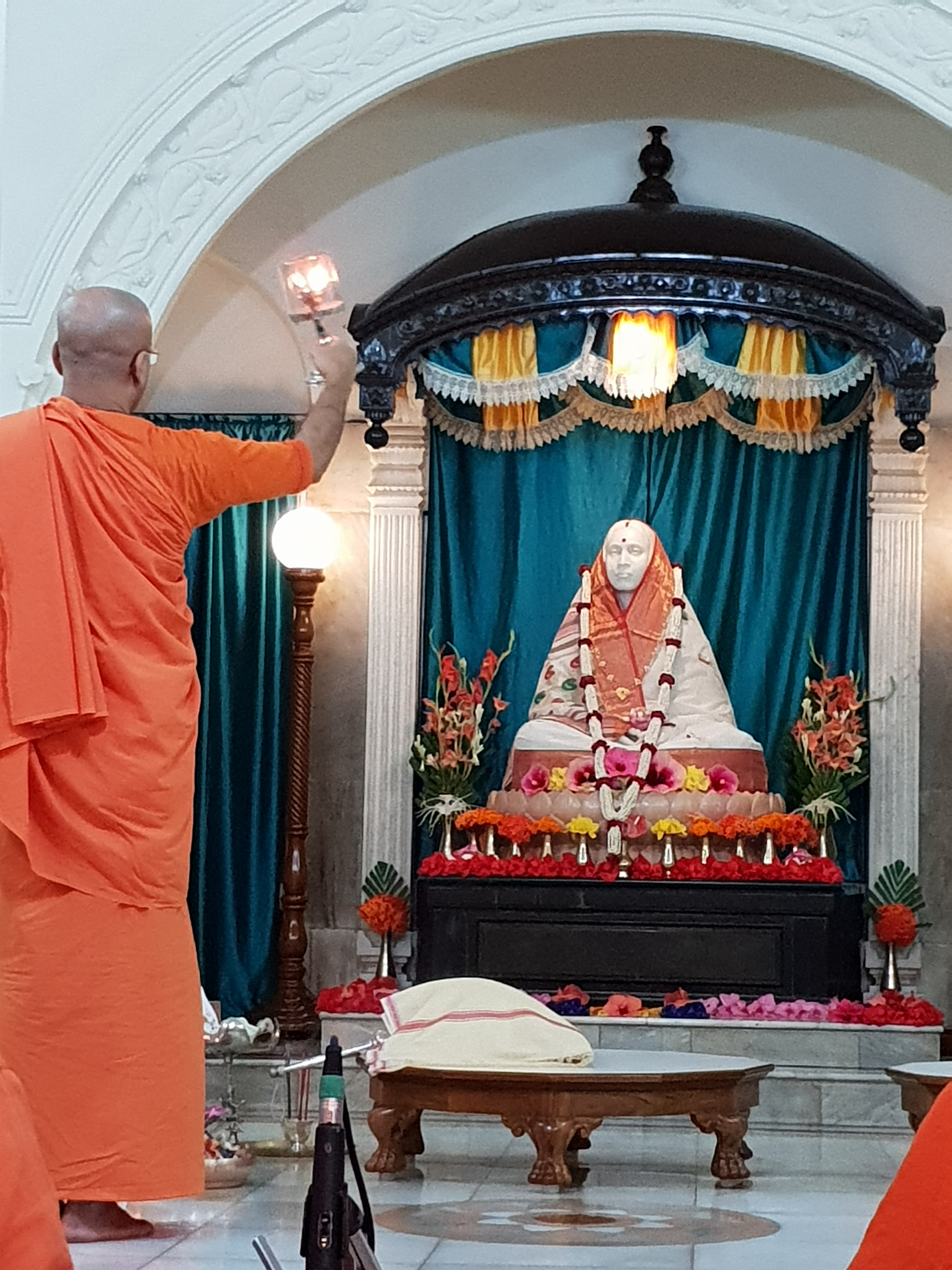 Mangal Arati in the Sri Sri Matri Mandir Joyrambati